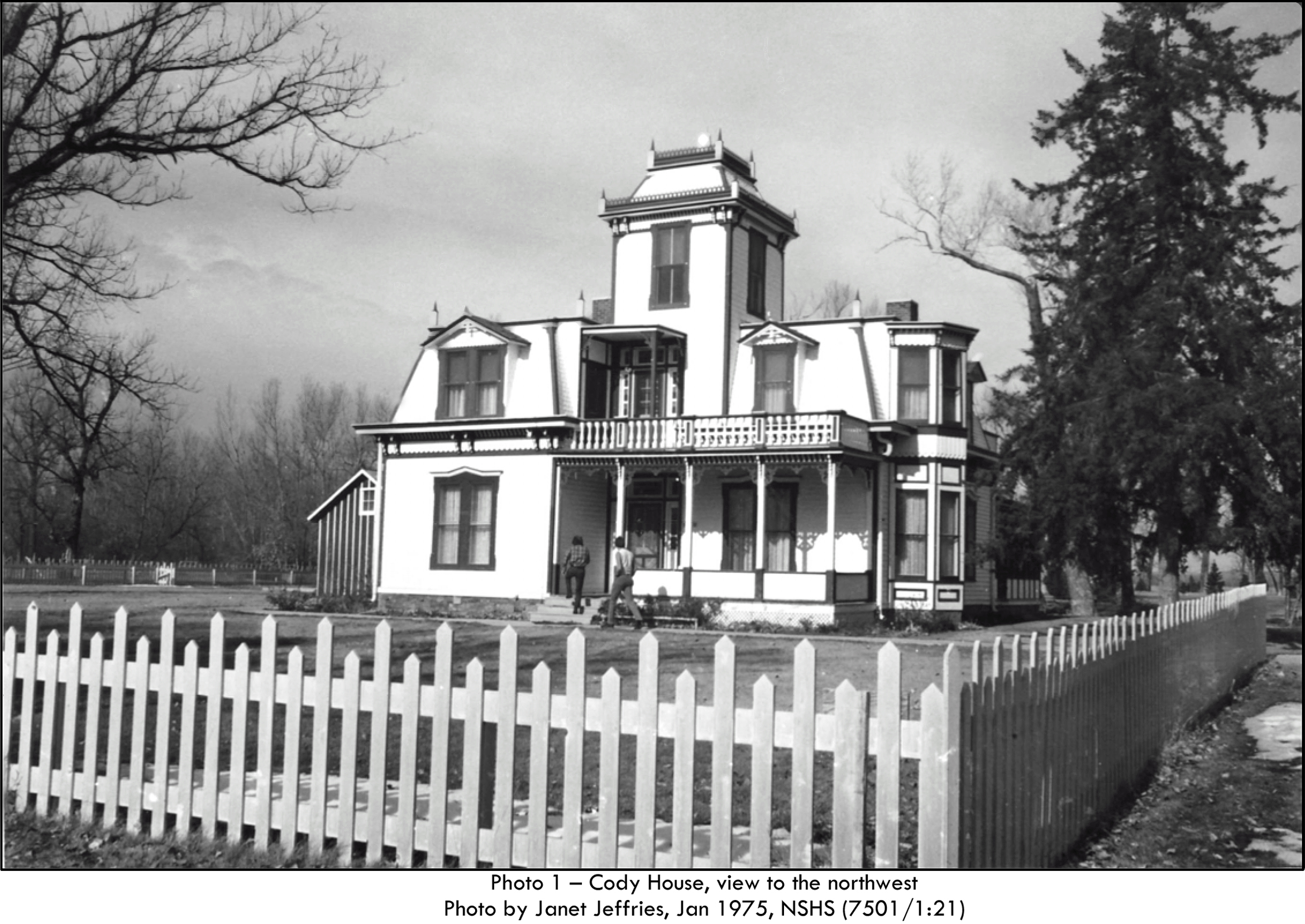 Photo 1 - Cody House, view to the northwest Photo by Janet Jeffries, Jan 1975, NSHS (7501/1:21)